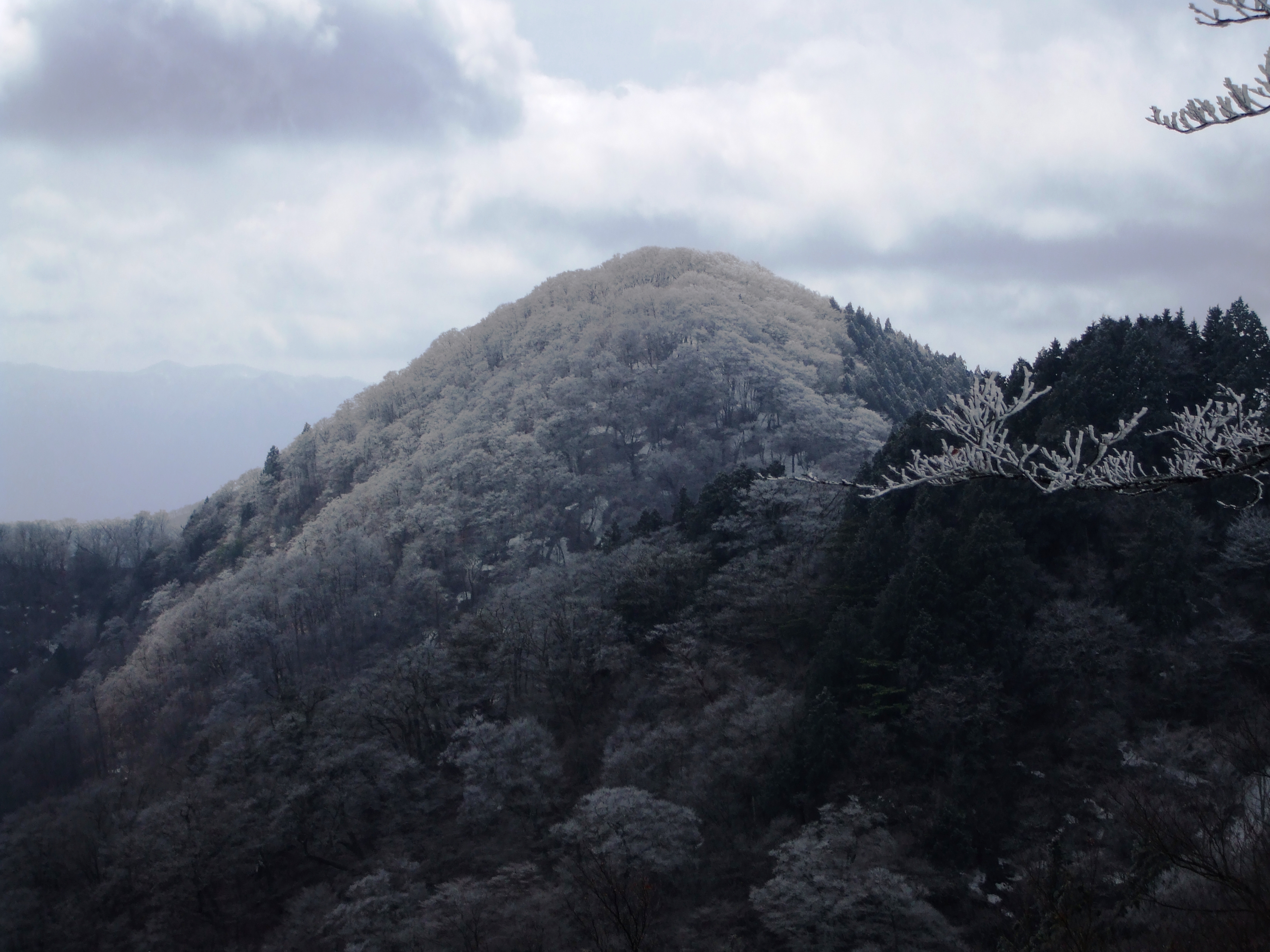 Mount Azami, Daiko Mountains, Honshu, Japan.